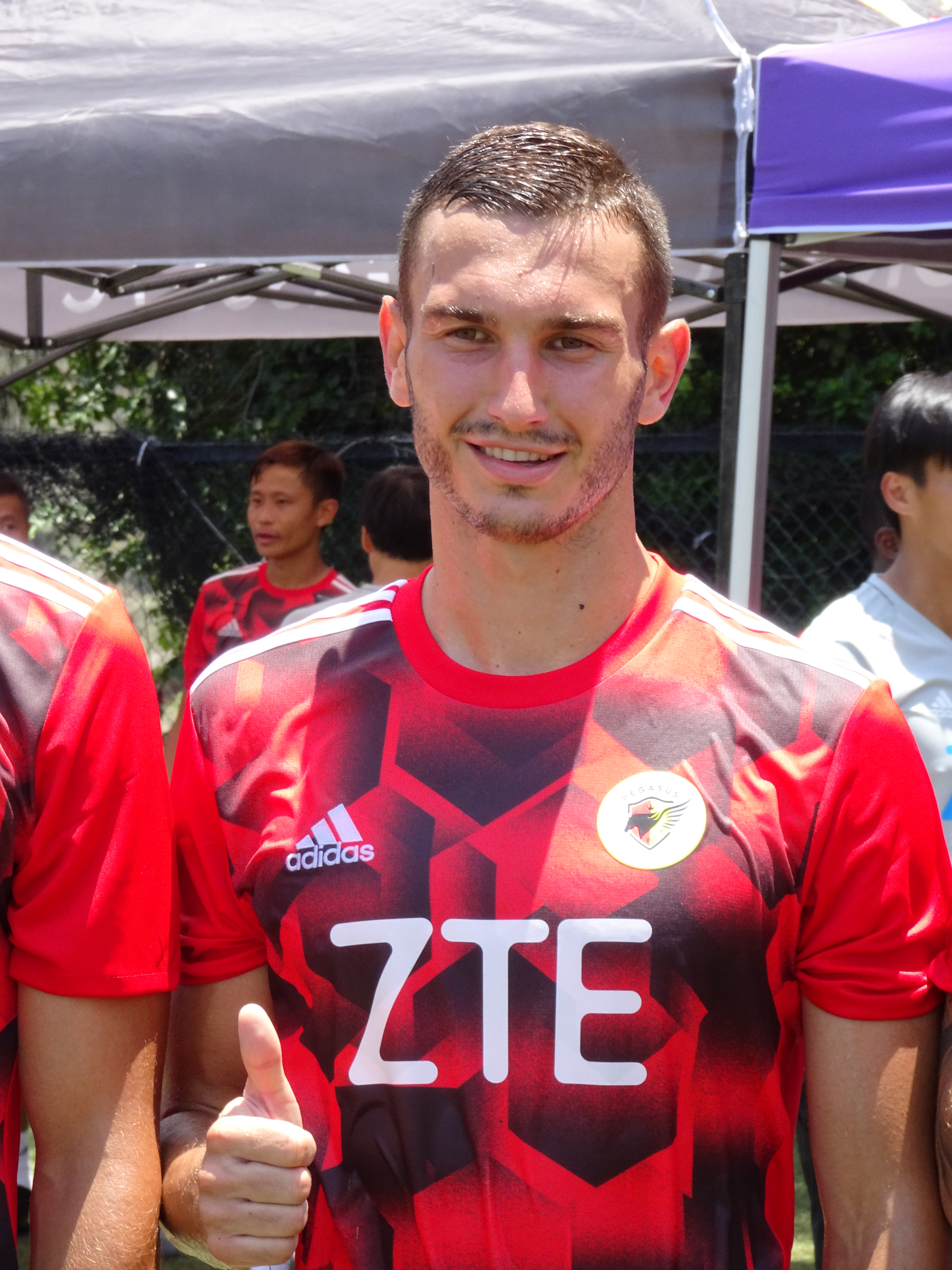 Igor Nedeljković (28 July 2017, Pegasus training, King’s Park Sports Ground) 中文（香港）: 伊高 (28 July 2017, 飛馬操練, 京士柏運動場)